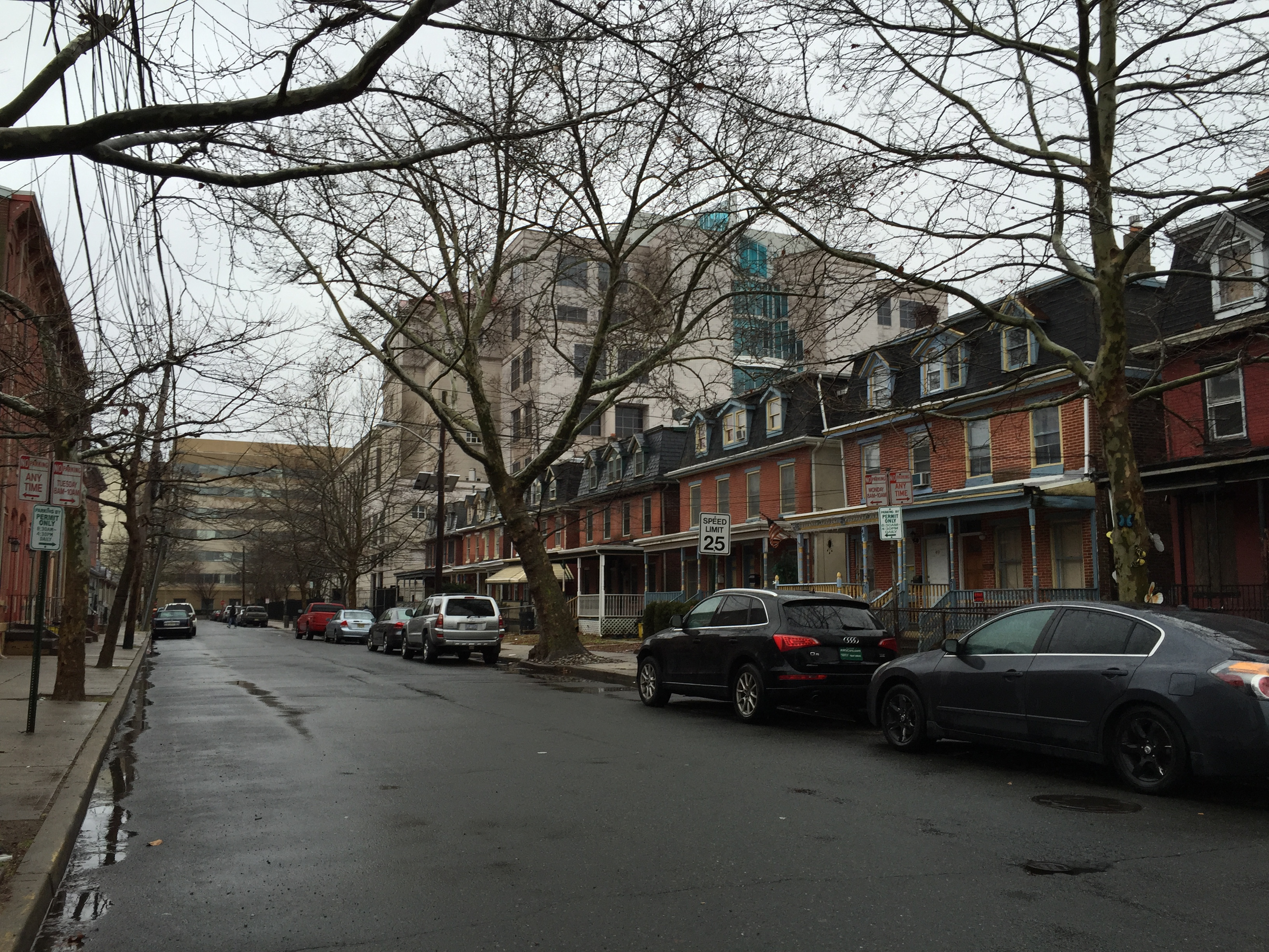 View south along Carroll Street near Cross Street in the Ewing/Carroll section of Trenton, New Jersey